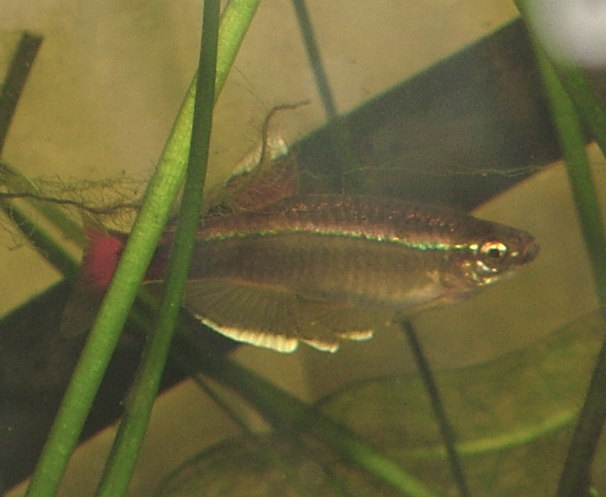 Male white cloud mountain minnow displaying fins